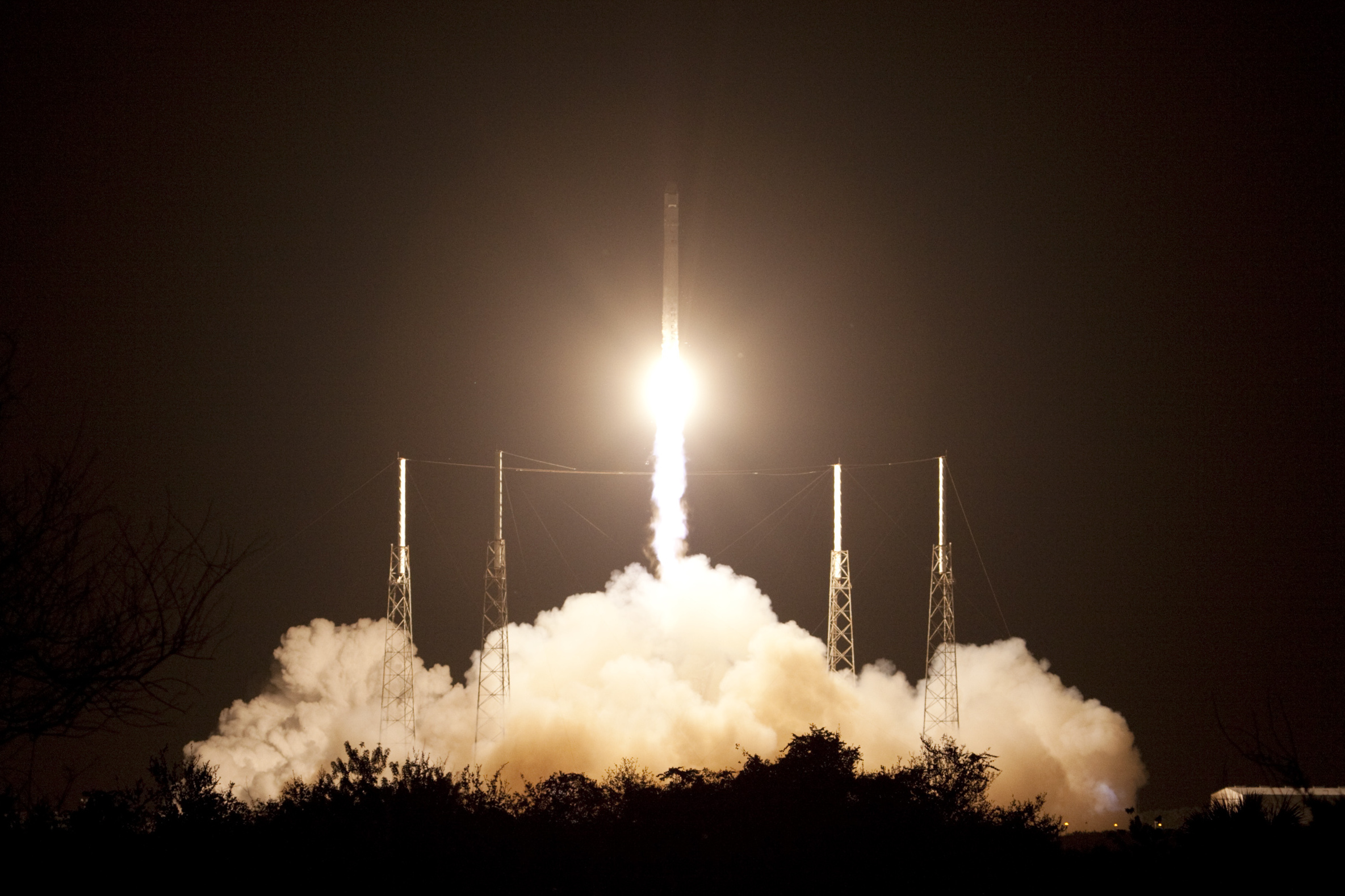 CAPE CANAVERAL, Fla. -- Space Launch Complex 40 on Cape Canaveral Air Force Station in Florida is illuminated by a Falcon 9 rocket as it lifts off at 8:35 p.m. EDT carrying a Dragon capsule to orbit. Space Exploration Technologies Corp., or SpaceX, built both the rocket and capsule for NASA's first Commercial Resupply Services, or CRS-1, mission to the International Space Station. SpaceX CRS-1 is an important step toward making America’s microgravity research program self-sufficient by providing a way to deliver and return significant amounts of cargo, including science experiments, to and from the orbiting laboratory. NASA has contracted for 12 commercial resupply flights from SpaceX and eight from the Orbital Sciences Corp. PHOTO NO: KSC-2012-5725